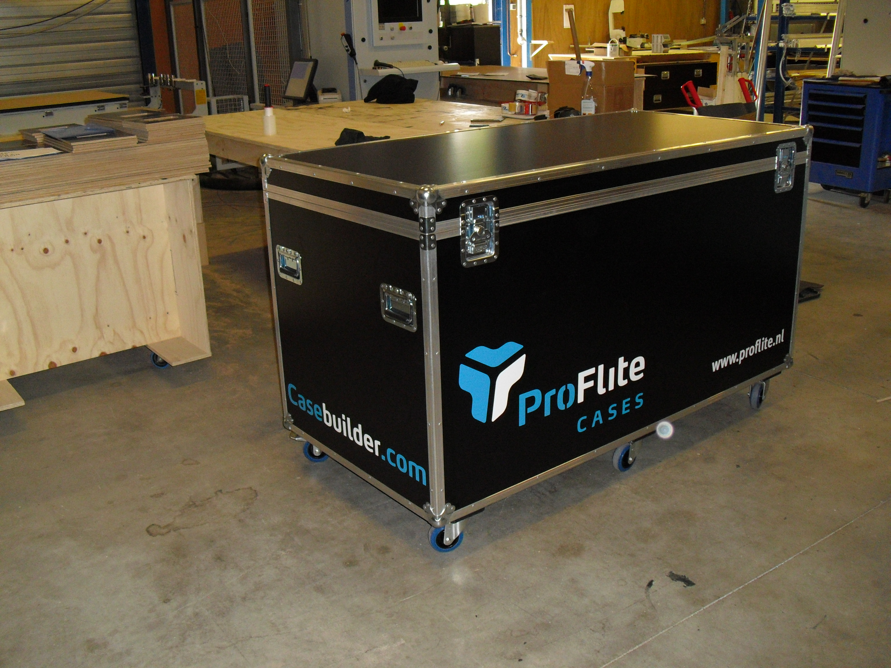 A picture of a flightcase.